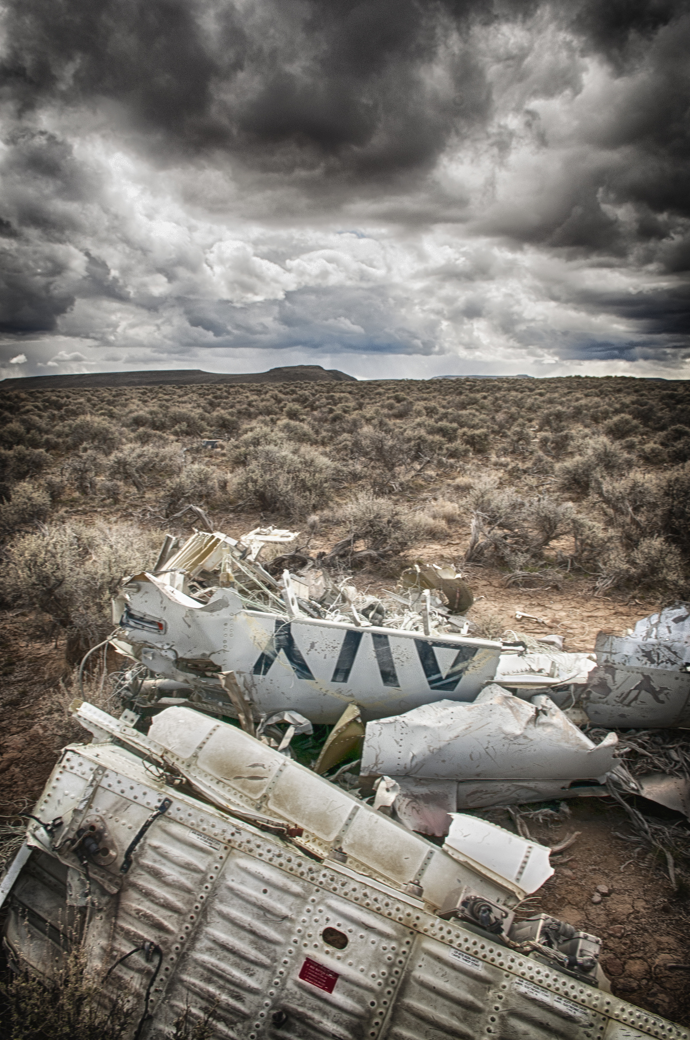 Burma Rim in southern Oregon is a veritable air crash museum. Spanning nearly 30 years, this site has witnessed two major military airplane accidents. The first, a World War II airplane, dropped out of the sky to rapidly descend two miles before hitting the ground. And then in 1973, a Vietnam-era aircraft augered in, leaving a debris field spread over three-quarters of a mile in its wake. Eerily, the two are located within one mile of each other in an Oregon desert location managed by the BLM’s Lakeview District. The first debris field contains the remnants of Lieutenant Clark’s Lockheed P-38 Lightning that went down during a gunnery training flight. The second downed plane is a Navy Grumman A-6 Intruder Bomber from the Naval Air Station at Whidbey Island, Washington. This aircraft hurtled to the ground in 1973 during a low-level night training mission. To honor these veterans, the BLM officially declared the two aircraft crash scenes historic Federal sites at a Flag Day ceremony on June 14, 2007. At the official ceremony, representatives unveiled interpretive plaques which pay tribute to the military and provide context for the historic significance of each location. Photos and story sections by Kevin Abel, BLM